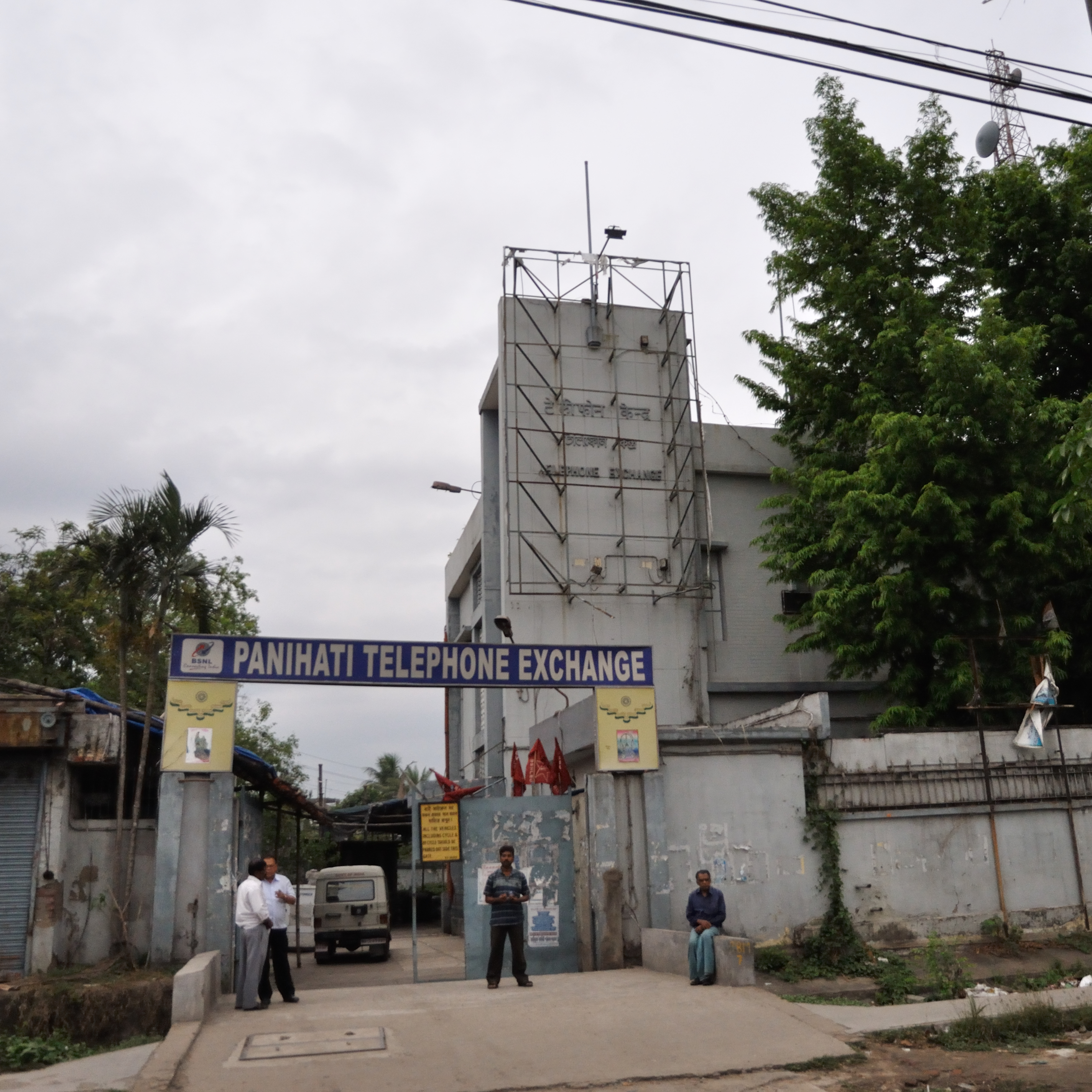 Photographed in greater Kolkata.